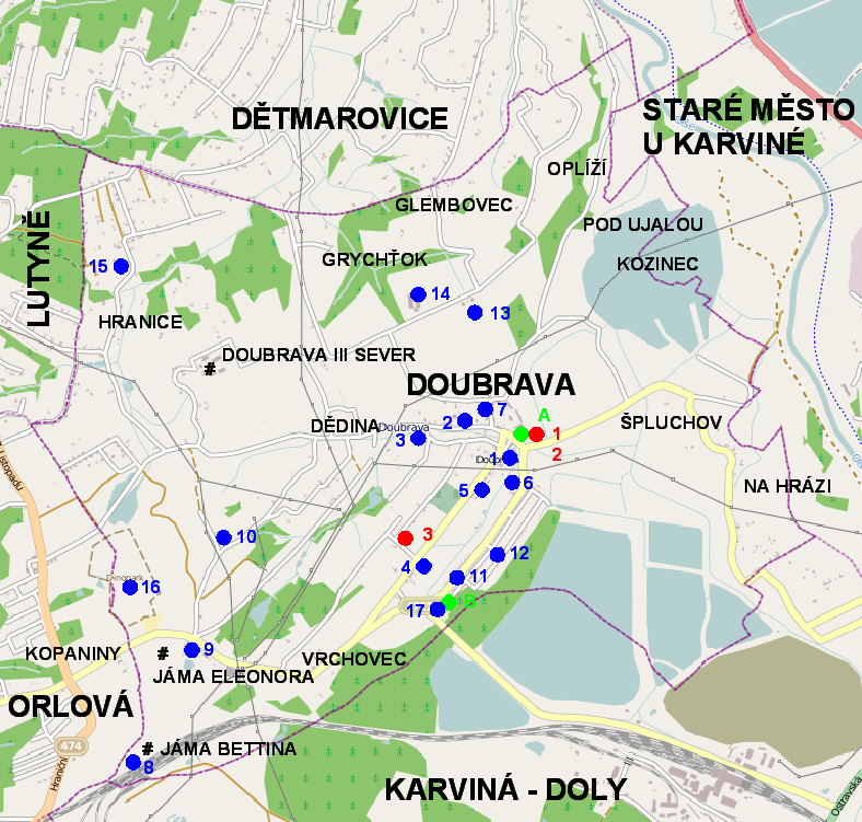 Doubrava, Karviná District, Moravian-Silesian Region, Czech Republic. Cadastral district map 1:30 000. This map of Doubrava, okres Karviná was created from OpenStreetMap project data, collected by the community. This map may be incomplete, and may contain errors. Don't rely solely on it for navigation.